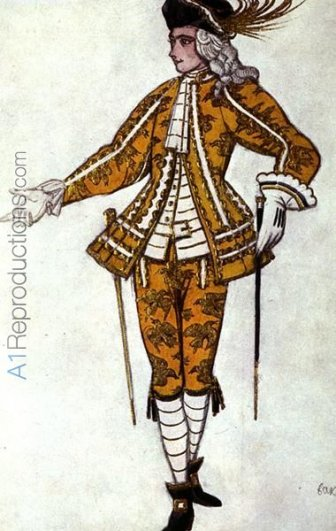 Costume design for the Fairy Canary's Pageboy, from Sleeping Beauty, 1921